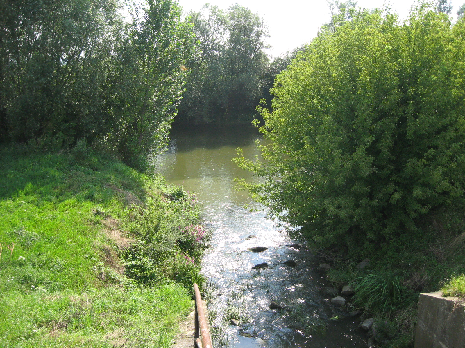 The mouth of Malá Nitra and Cetínka (the parent branch of Nitra river).